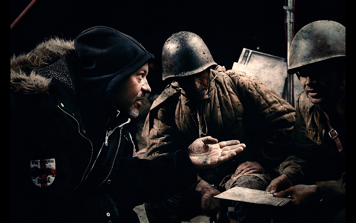 Fedor Bondarchuk on filming of Stalingrad